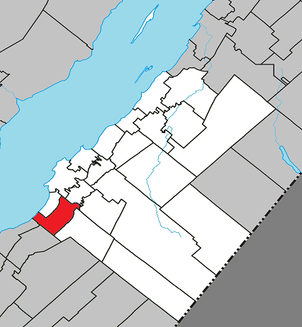 Location of Sainte-Anne-de-la-Pocatière, Quebec within Kamouraska Regional County Municipality.